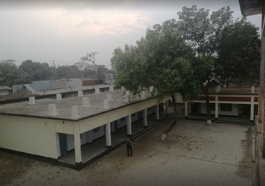 Saidpur high school's images